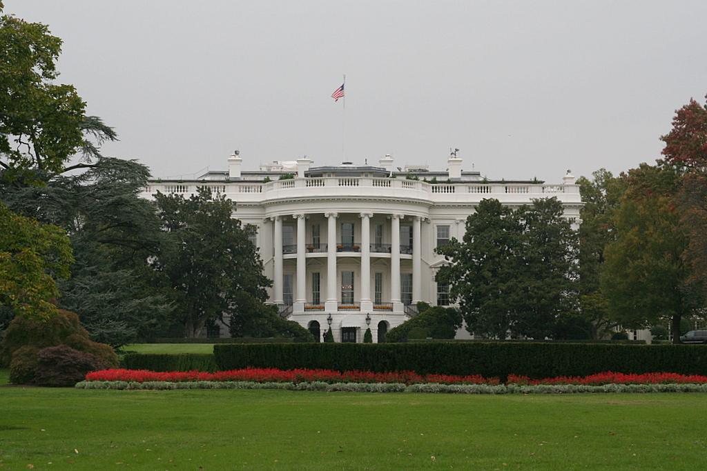 White House Washington DC